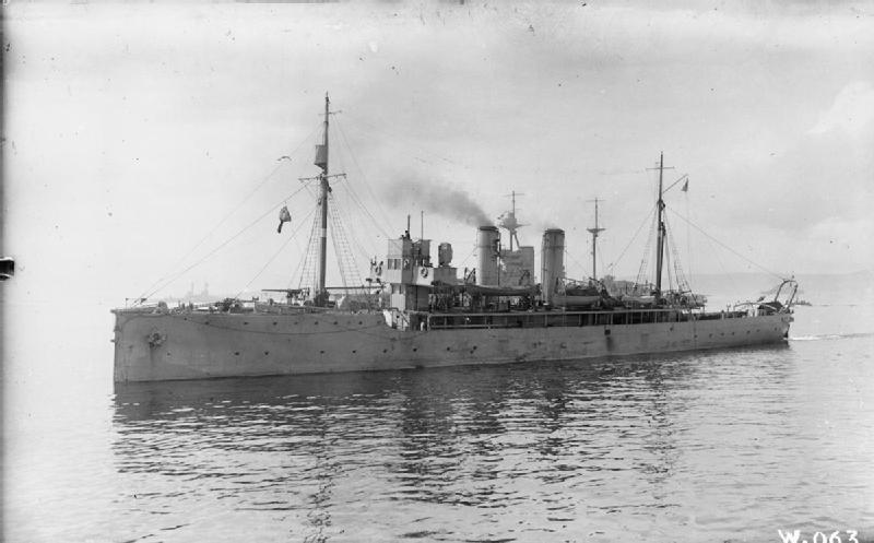 Photograph of British minesweeping sloop HMS Acacia.